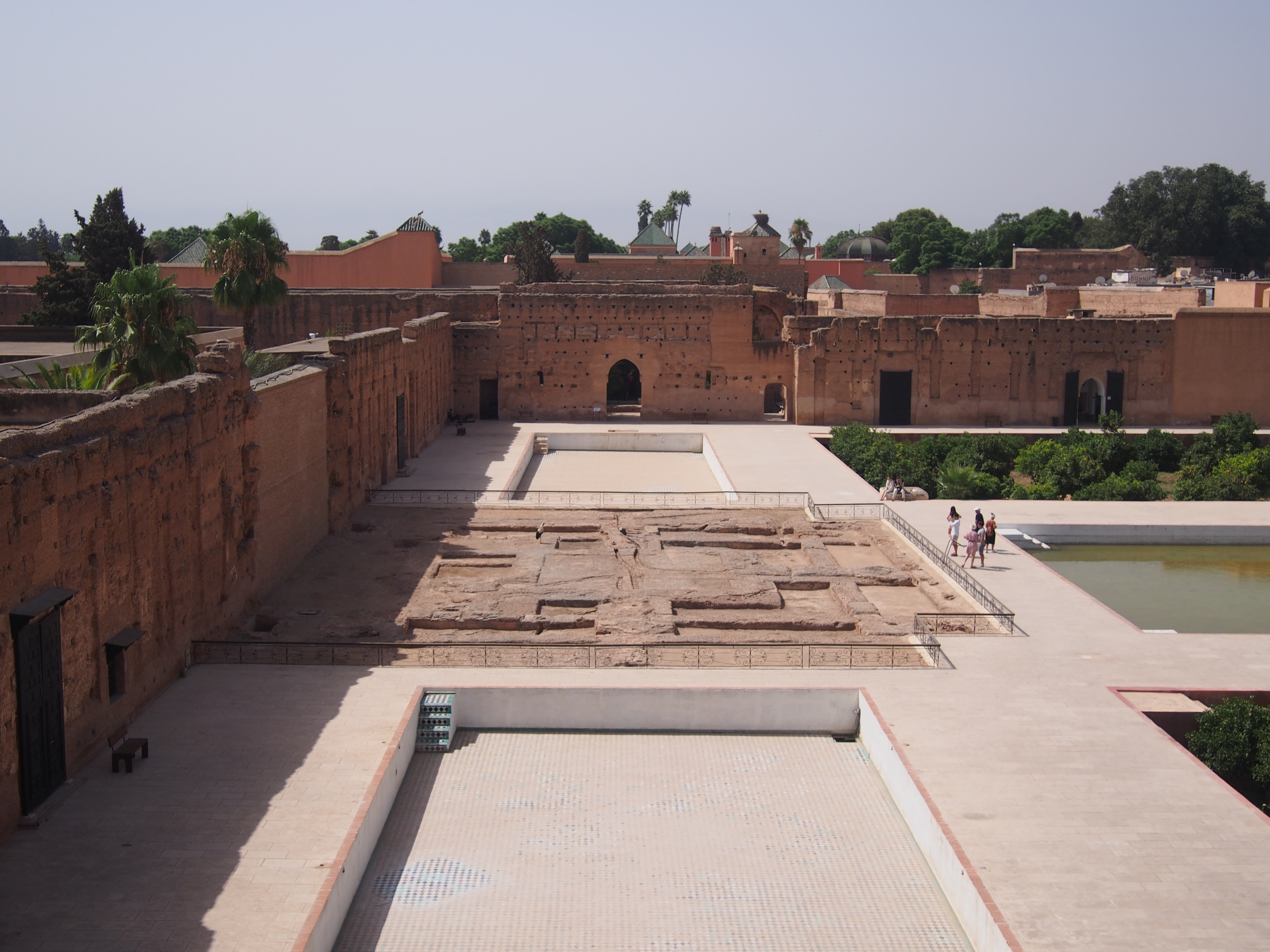 El Badi Palace